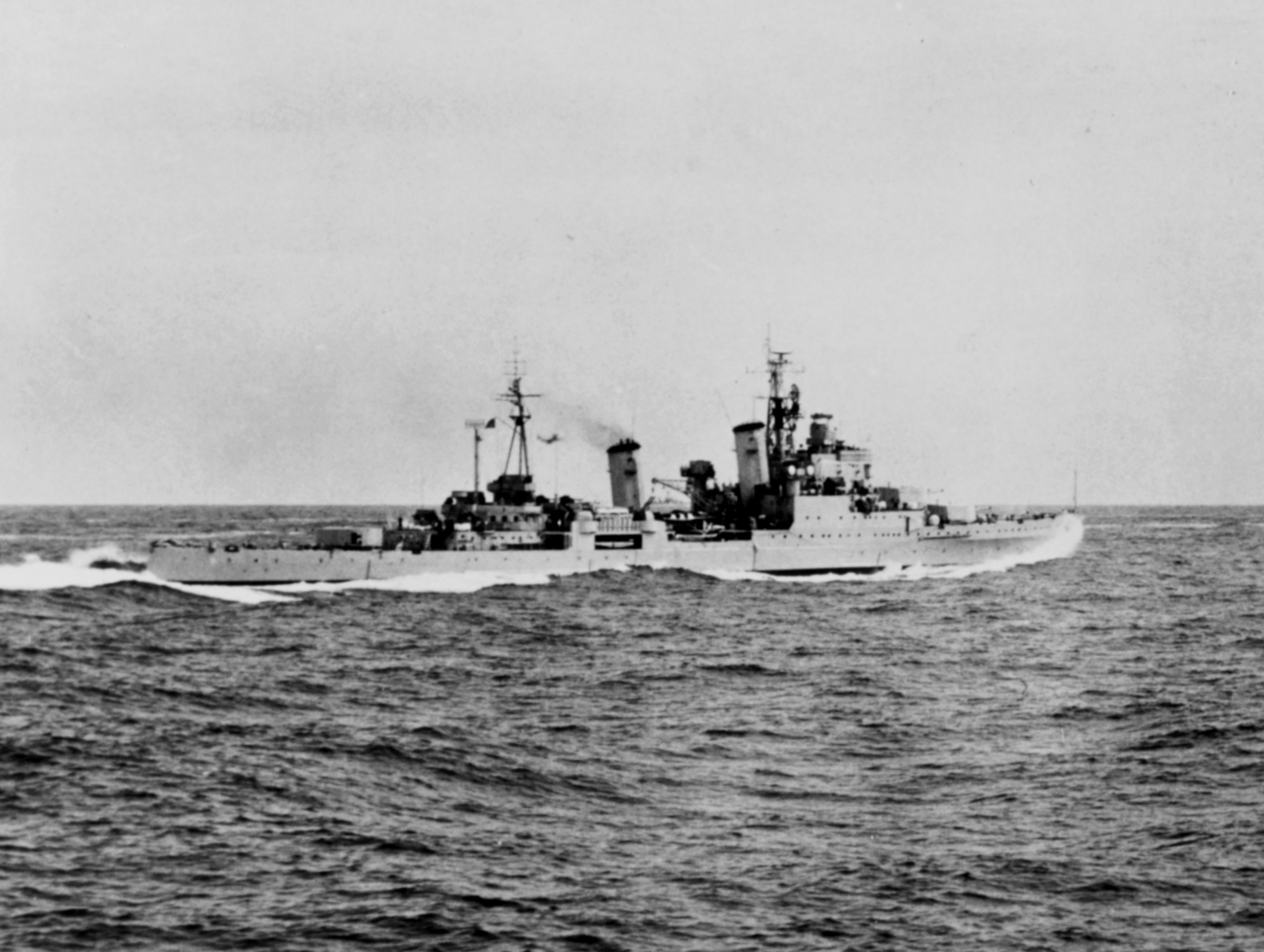 The Royal Nava light cruiser HMS Newcastle (C76) steams in formation with a U.S. Navy carrier task force, off Korea, 3 March 1954. Note the plane just aft of her second funnel approaching for landing.